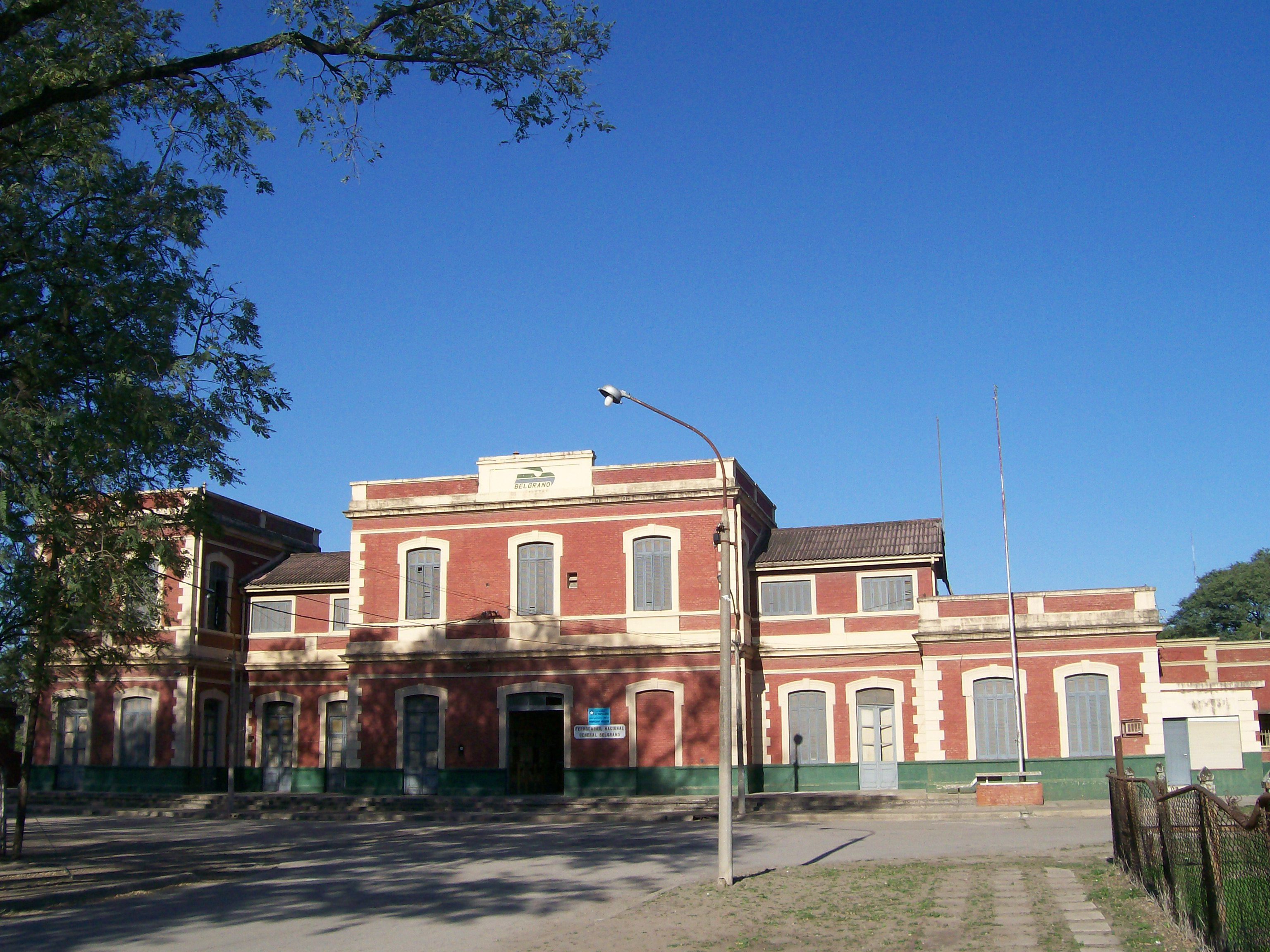 Front view of Resistencia train station (Belgrano Railway). Resistencia, Chaco, Argentina.